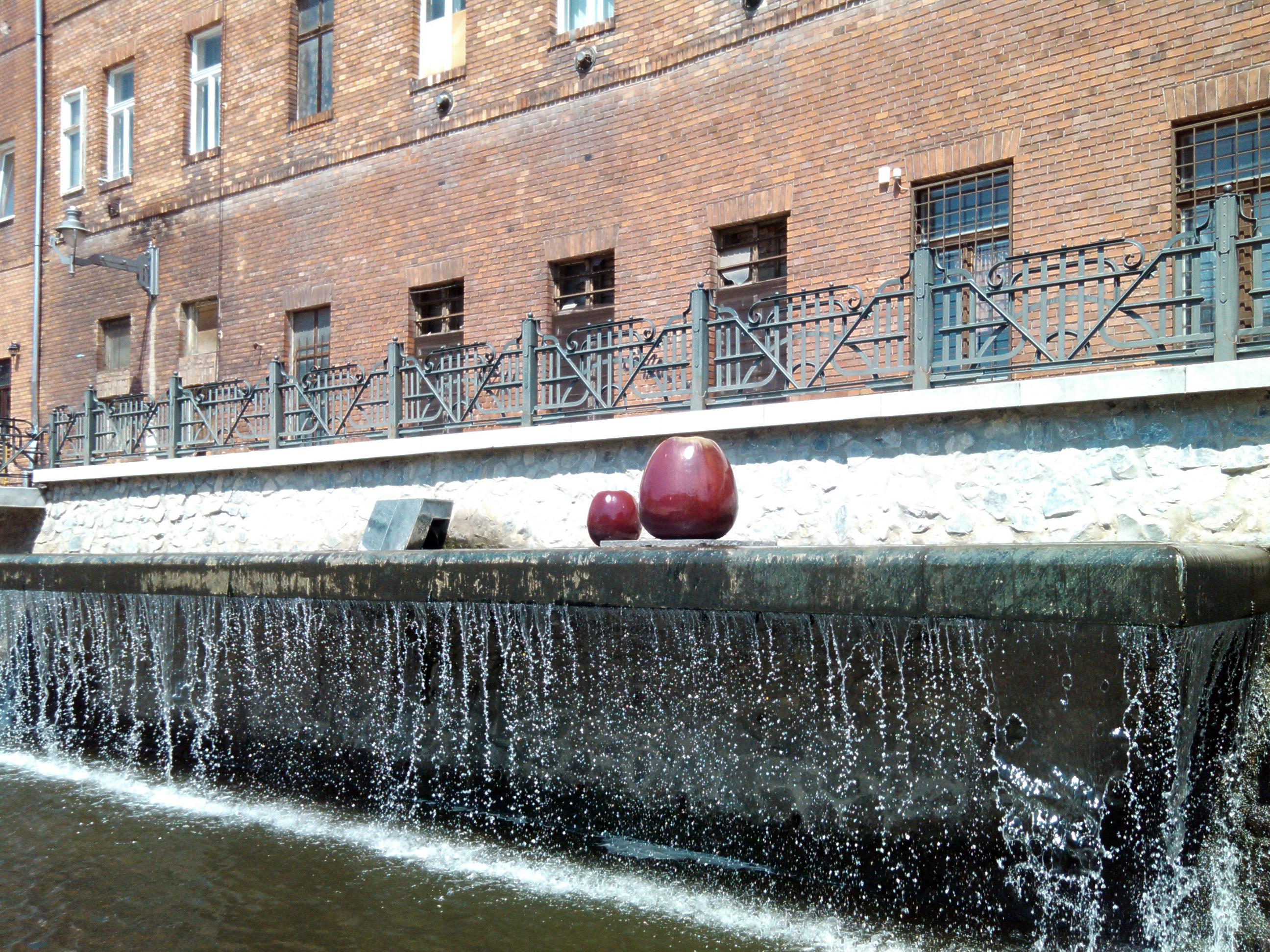 Ceramic apples at Szinva Terrace square, Miskolc, Hungary. Sculptor: Gusztáv Kraitz